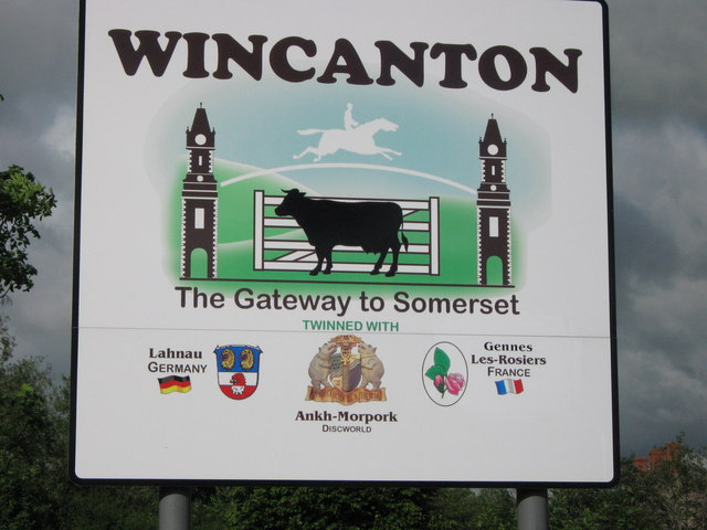 "Wincanton" sign Is Wincanton the only town in the UK to be twinned with a fictional city? There are strong local Pratchett connections, including a shop dedicated to Discworld memorabilia called "The Cunning Artificer's Discworld Emporium".